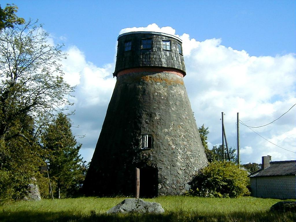 Windmill in Lizums, Latvia